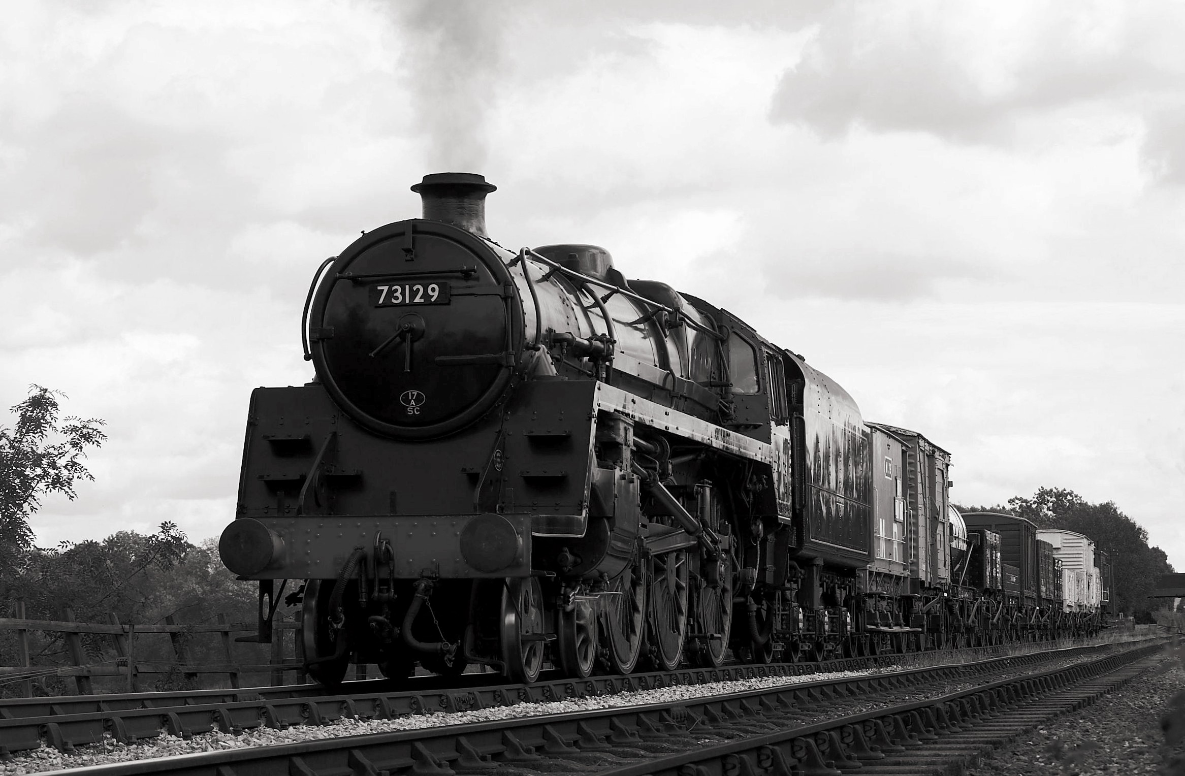 Caprotti 5 73129 works a demonstration freight train across Butterley causeway